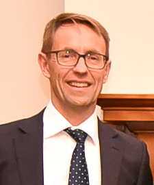 Ashley Bloomfield, at a dinner at Government House, Wellington, on 26 May 2020.